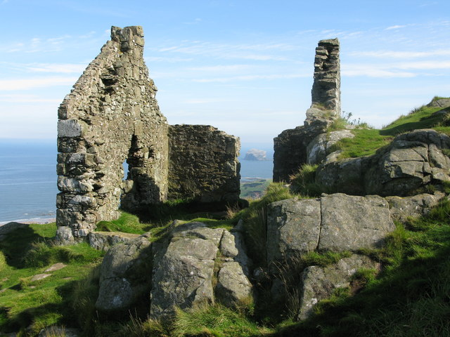 Ruined House on North Berwick Law This is just below the summit of North Berwick Law. The Bass Rock can also be seen through a gap in the ruined house.